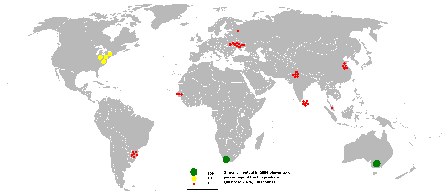 This bubble map shows the global distribution of zirconium output in 2005 as a percentage of the top producer (Australia - 426,000 tonnes). This map is consistent with incomplete set of data too as long as the top producer is known. It resolves the accessibility issues faced by colour-coded maps that may not be properly rendered in old computer screens. Data was extracted on 16th June 2007. Source - (Archived at 18:24, 25 January 2016 (UTC)) Based on :Image:BlankMap-World.png